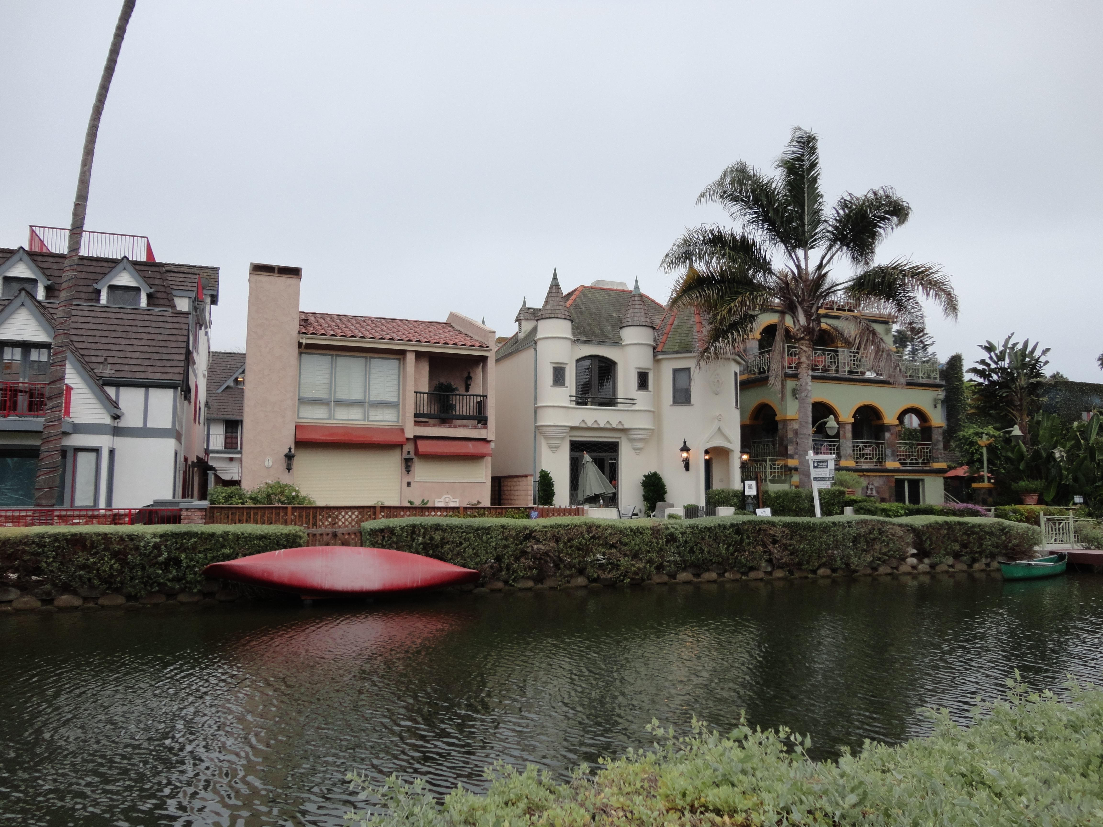 Bungalows on Venice Canals, Los Angeles, California, Sept 2011